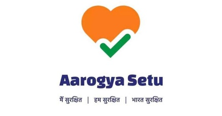 The logo of Aarogya Setu